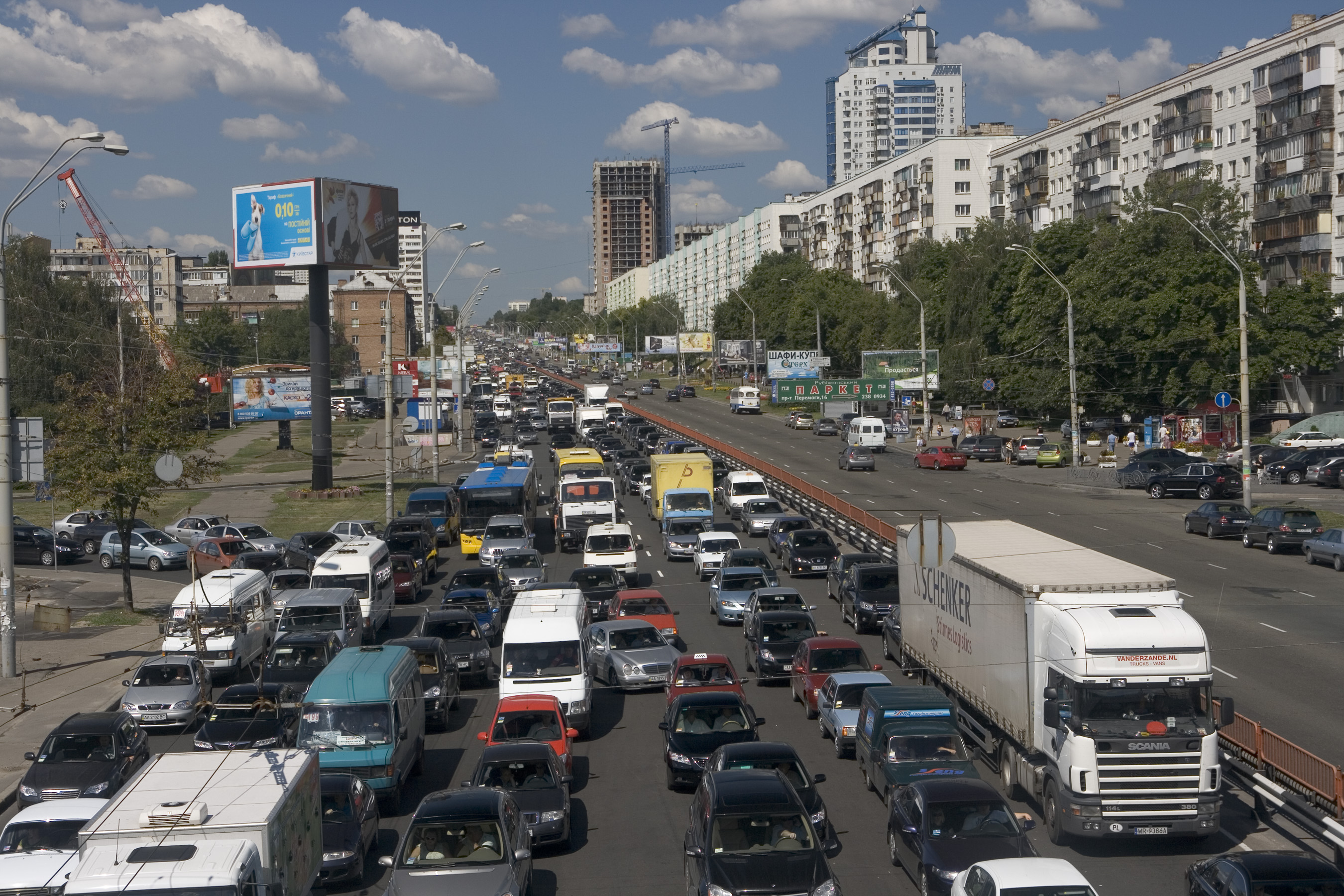 Peremohy Avenue, Kiev